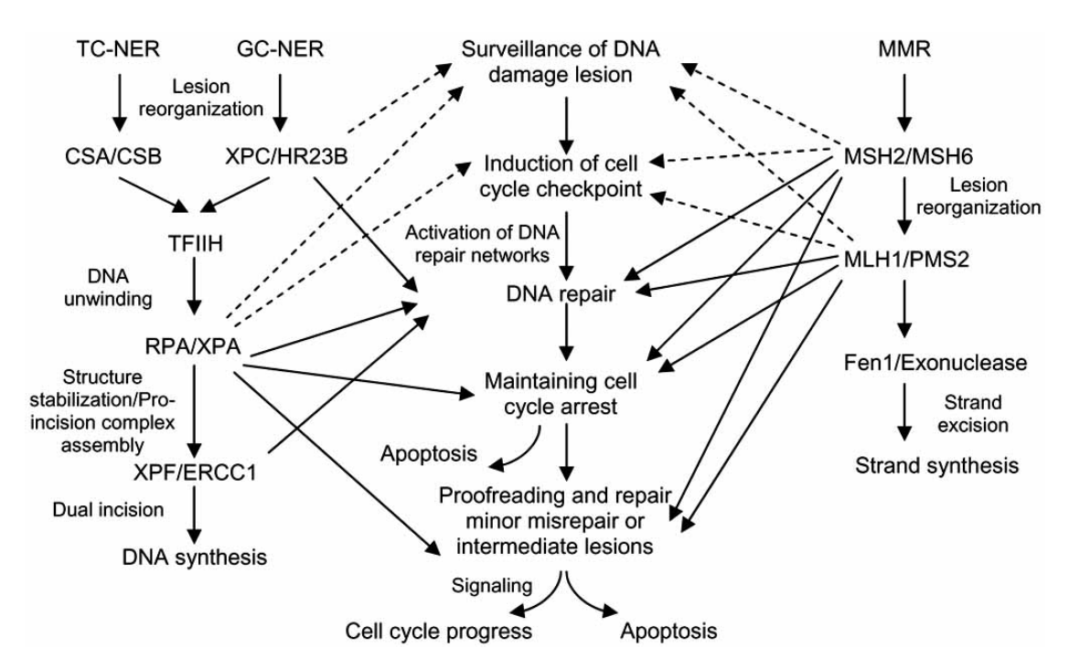 Schematic showing how two excision repair pathways (mismatch repair and nucleotide excision repair) work together to repair DNA damage and prevent cancer